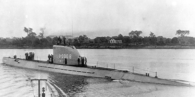 German submarine U-3008 in Portsmouth Naval Shipyard, Kittery, Maine